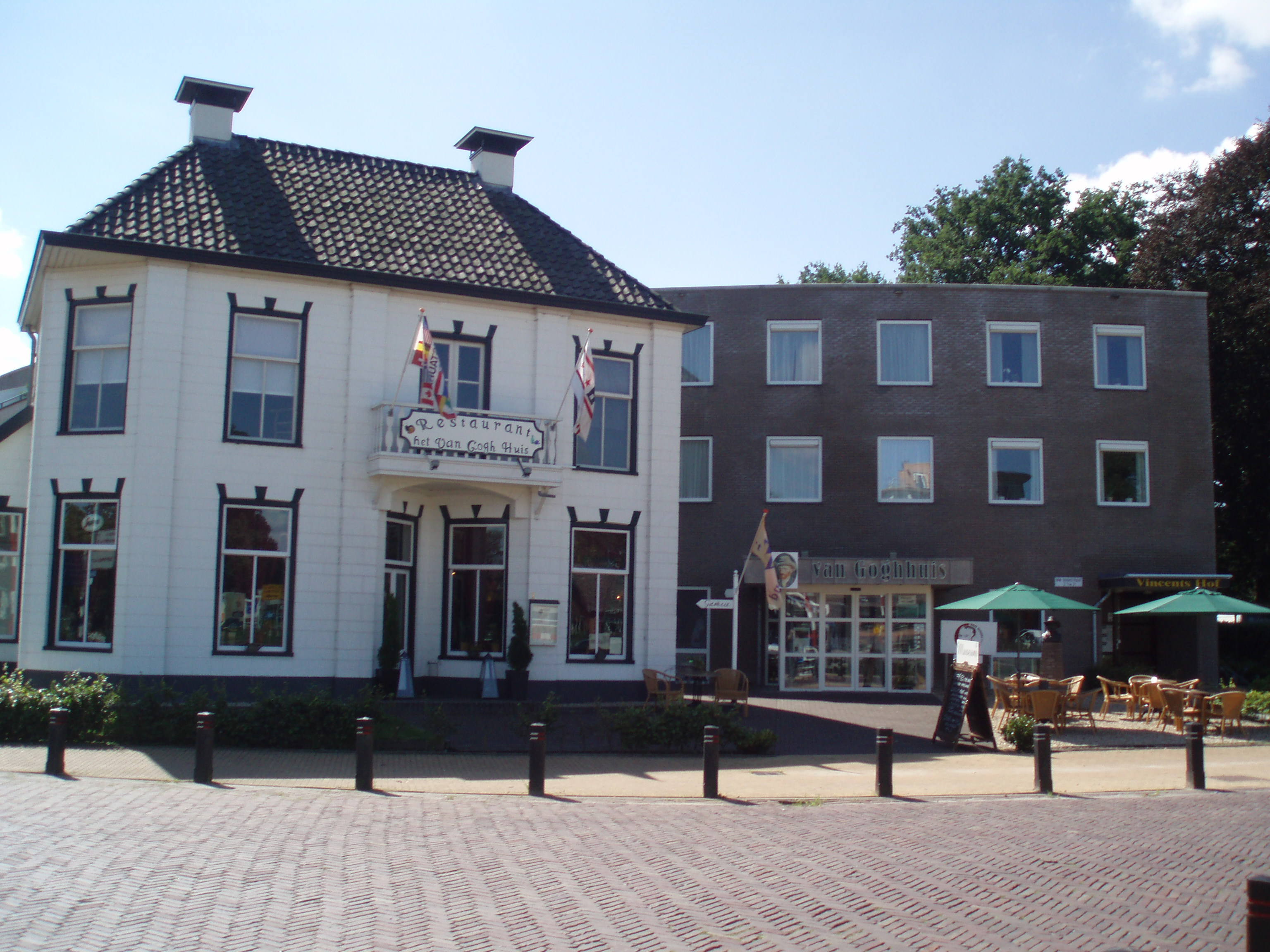 Vincent van Gogh Huis in Veenoord, near Nieuw-Amsterdam